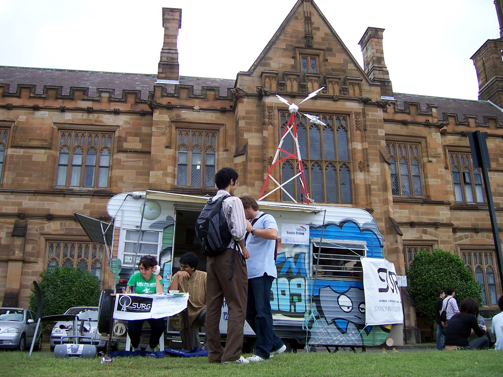 The 2006 orientation week stall of the Sydney Uni Radio Group at the University of Sydney. The person at the desk wearing the green shirt is current USU president, and the then Sydney Uni Radio Group President, Rose Khalilizadeh. Taken by Enoch Lau on 1 March 2006. As a courtesy, please let me know if you alter this image or this image description page. Original filename was IMG_0293.JPG.